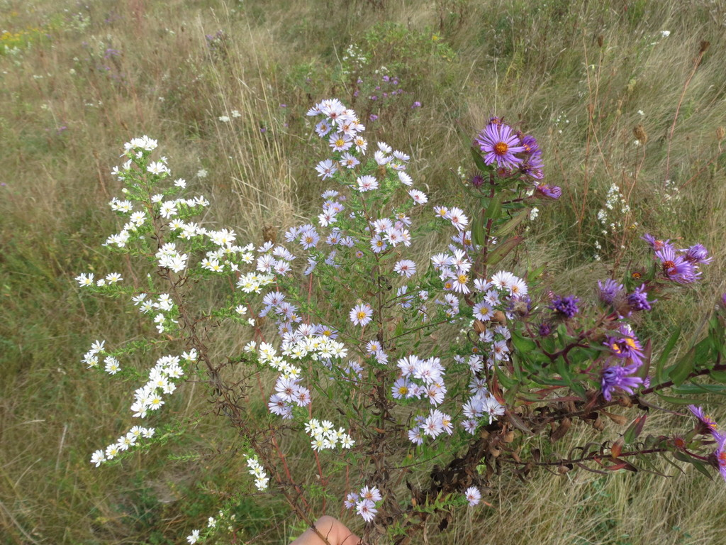 Symphyotrichum ×amethystinum (Amethyst Aster, centre) comparison with parent species Symphyotrichum ericoides (Heath Aster, left) and Symphyotrichum novae-angliae (New England Aster, right), Mississauga, Ontario, Canada. Original